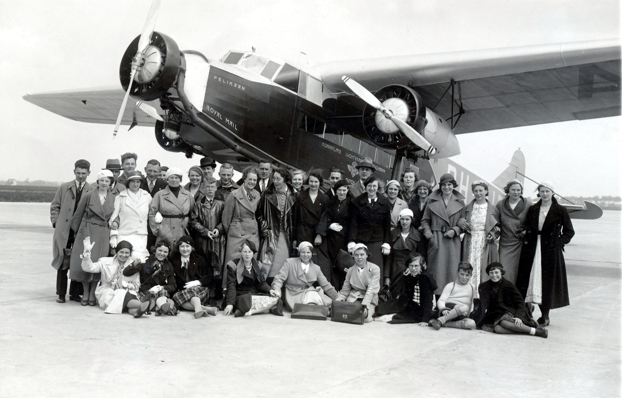 Fokker F.XVIII "Pelikaan" PH-AIP at Schiphol Amsterdam.